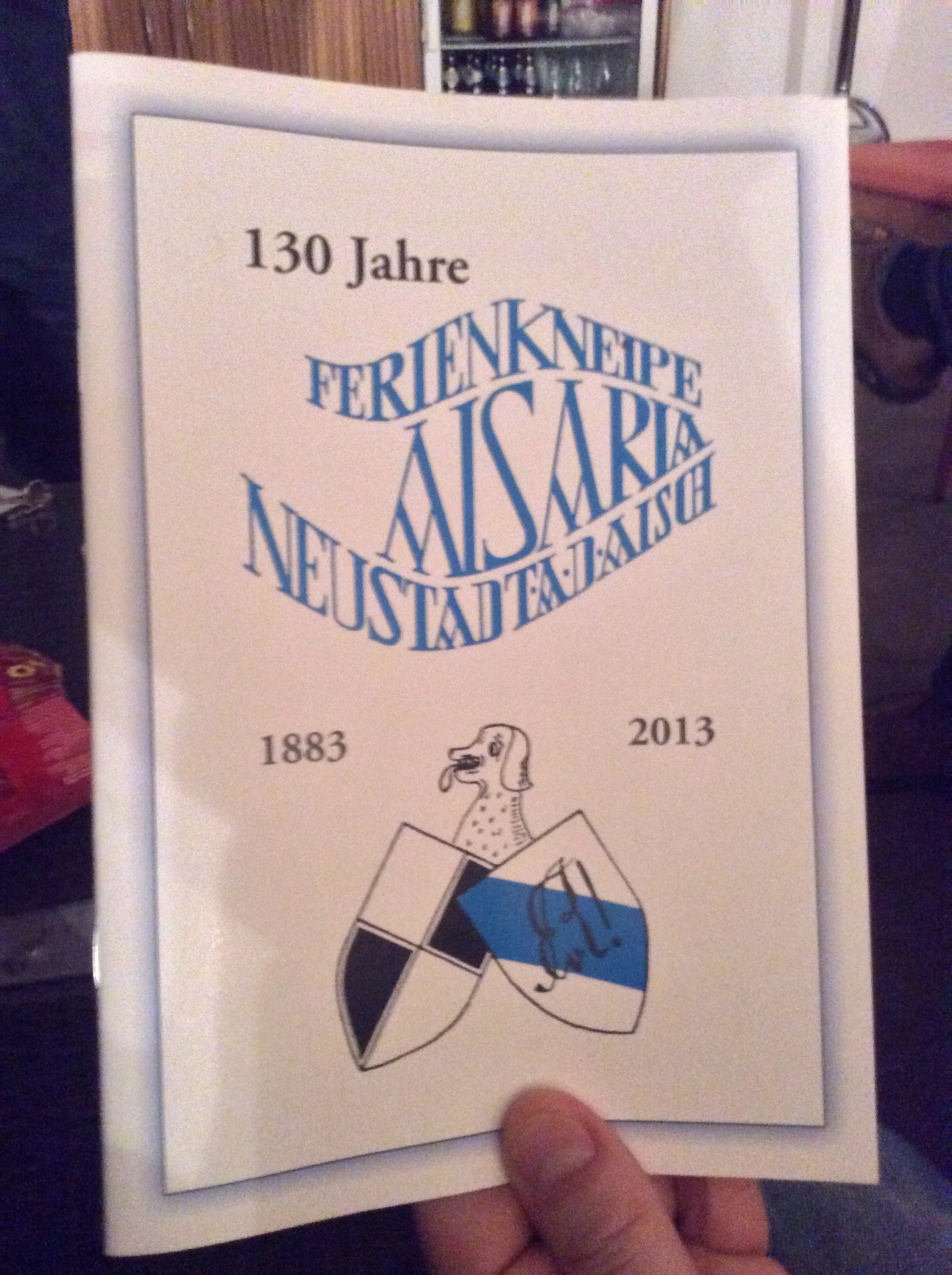 Festschrift 130. Stiftungsfest 2013